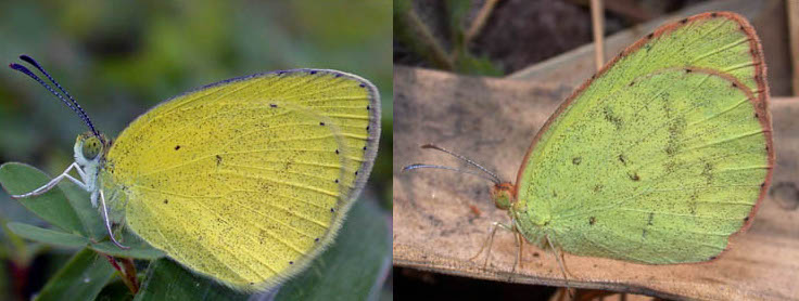 Both forms of the small grass yellow